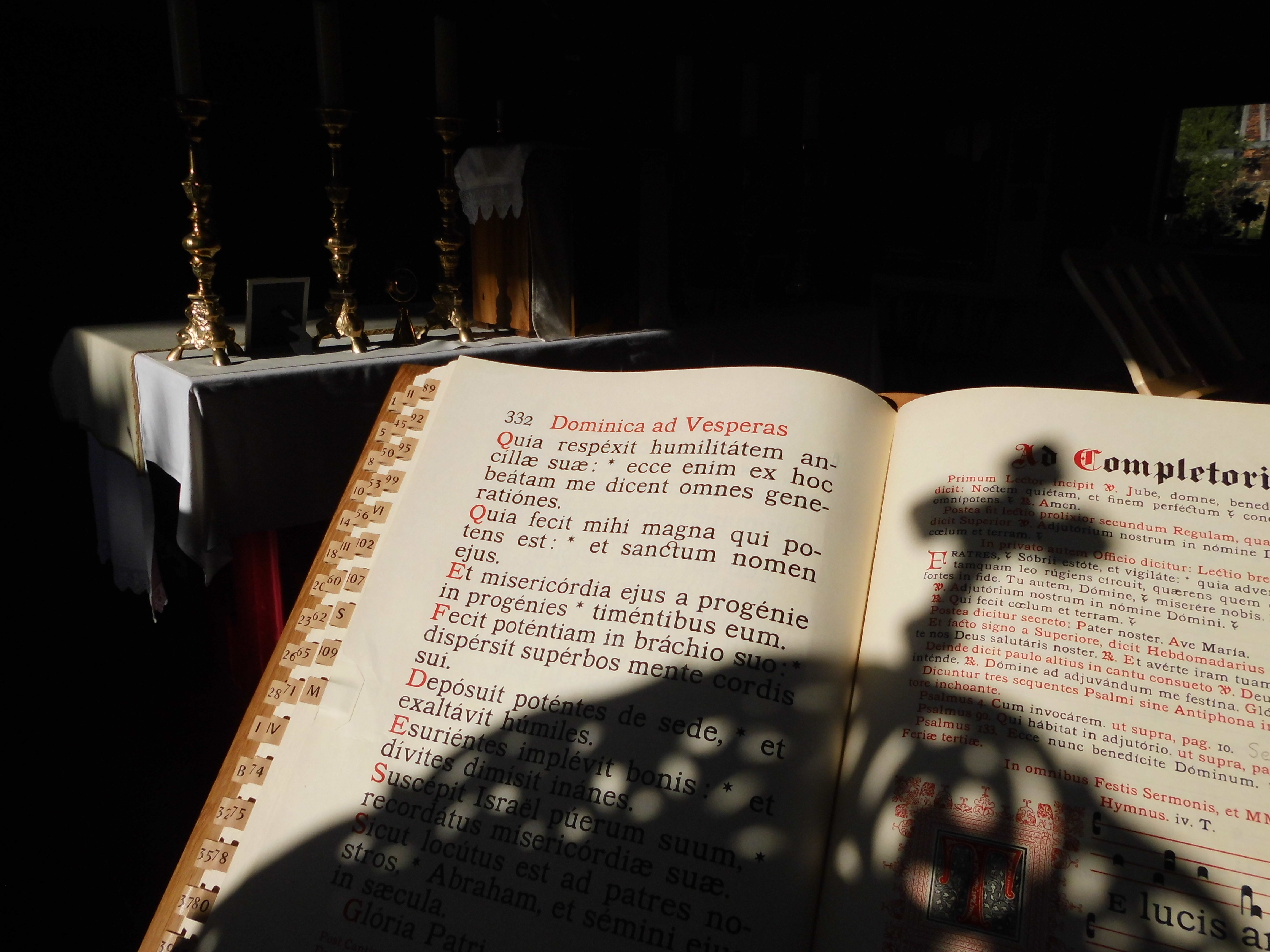 Before compline